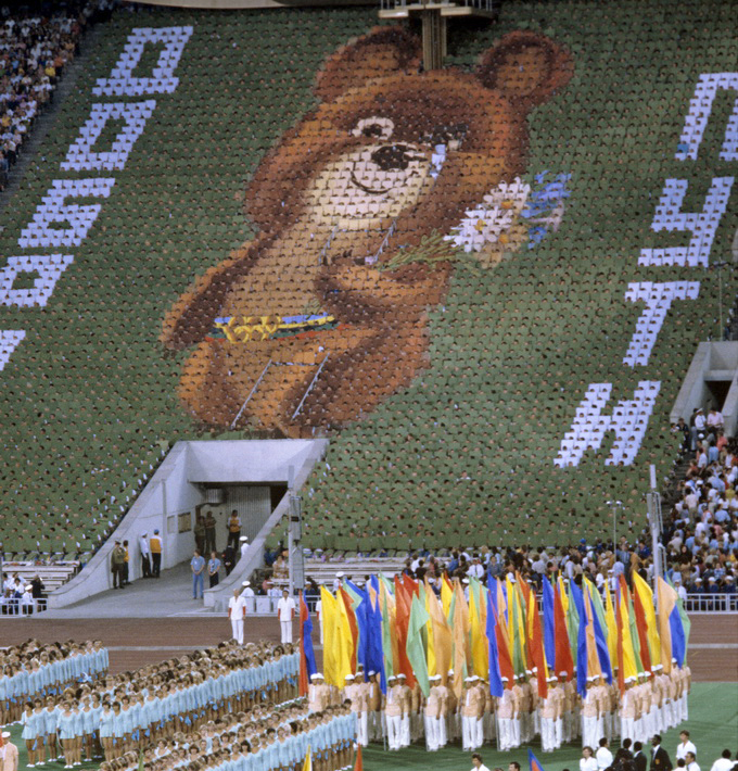 “Flag-bearers of states-participants of the XXII Summer Olympic Games”. Flags of national and international Olympic committees of the states-participants of the XXII Summer Olympic Games carried out for the closing ceremony. Central Lenin Stadium. *